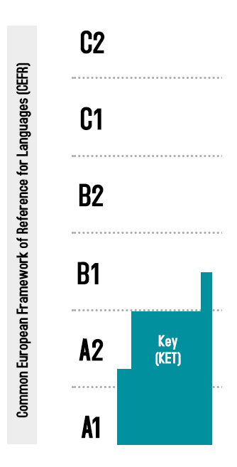 Comparison between the exam Cambridge